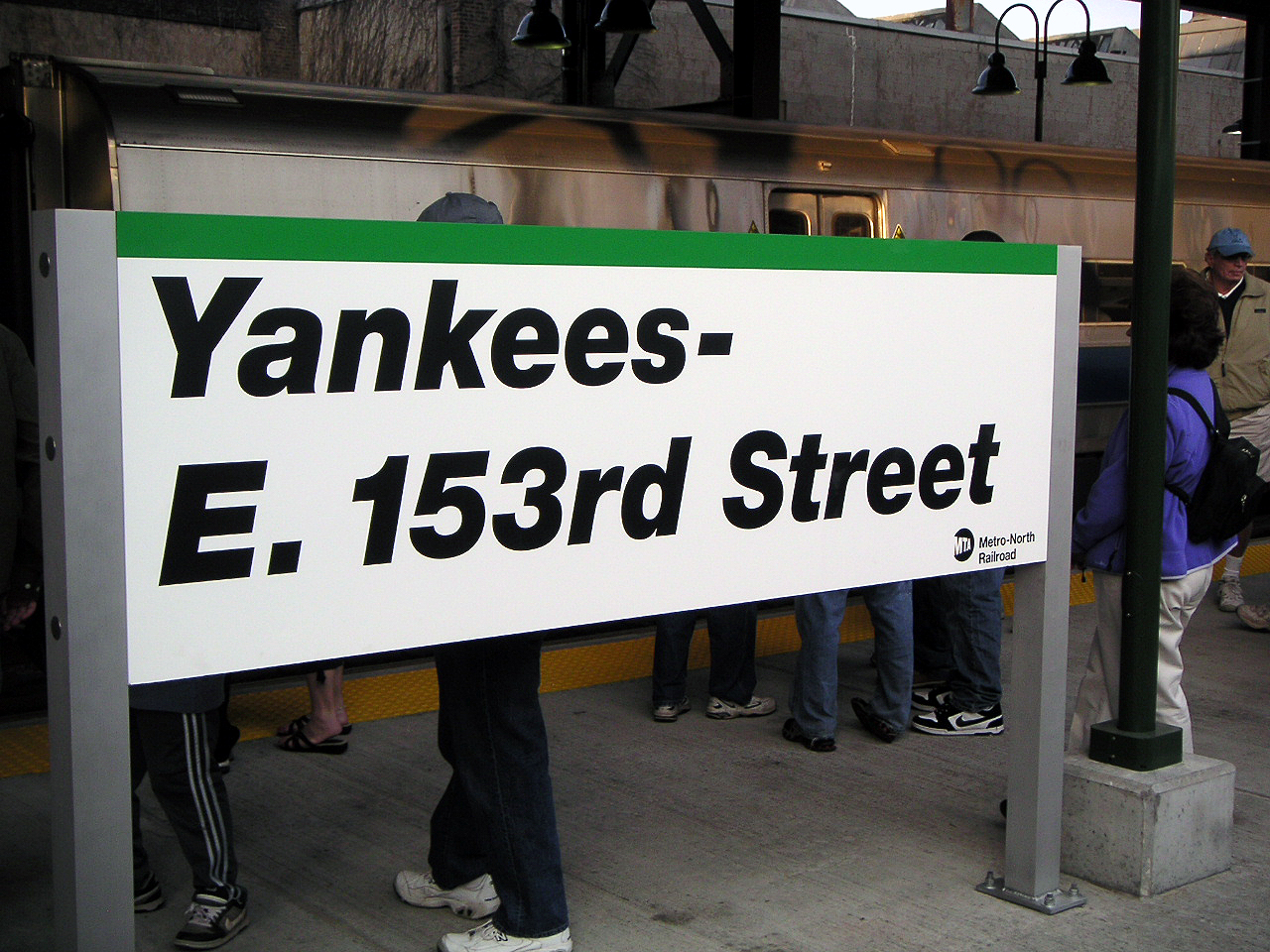 Sign from the Yankees / E. 153rd Street station, New York City